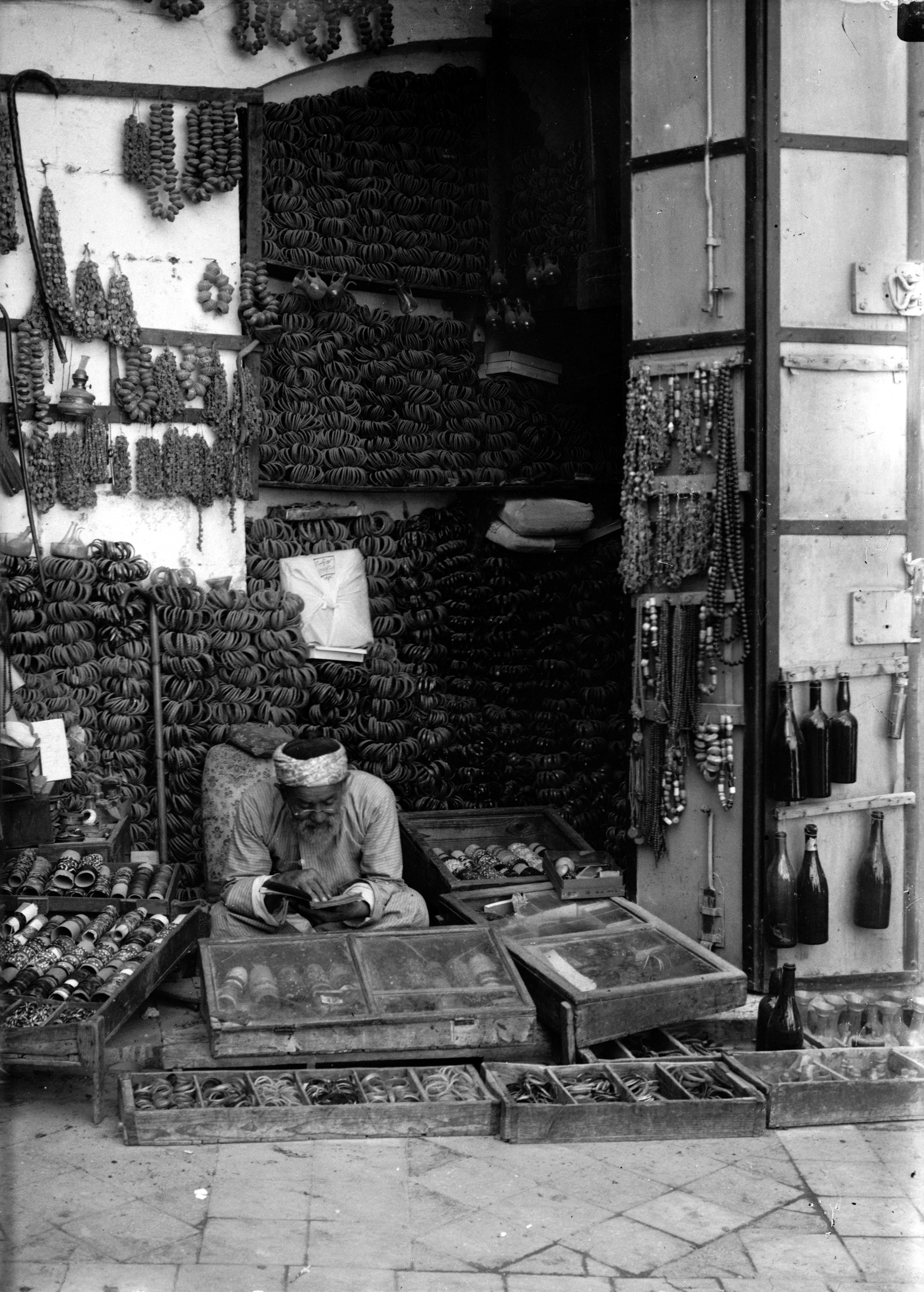 The jewelry store, Hebron glass (native jewelry shop).